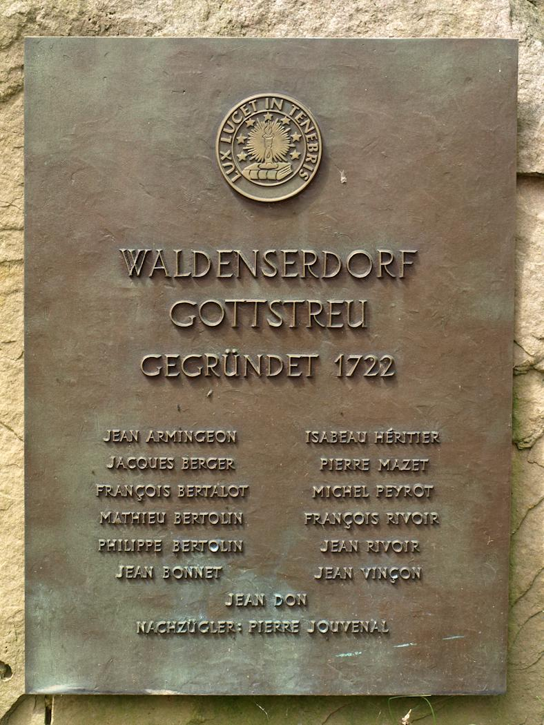 Gottstreu (Oberweser), Hessen ,Germany,names of the founders , photo 2012